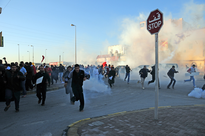 Protesters fleeing as tear gas fired by security forces is spreading about them